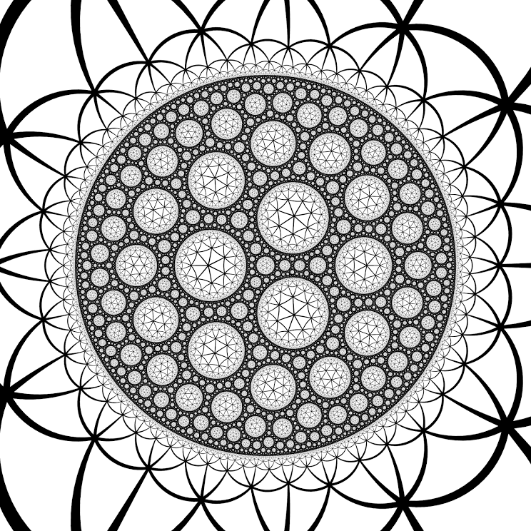 This is the regular {3,3,7} honeycomb in hyperbolic 3-space. This renders the intersection of the {3,3,7} with the plane-at-infinity, in the Poincare half-space model of H3.